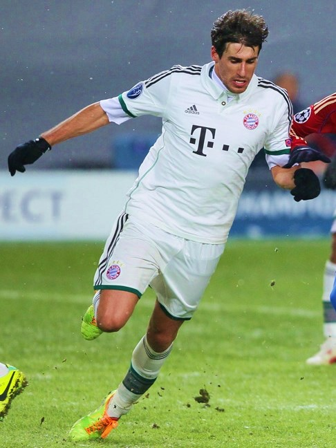 Javier «Javi» Martínez